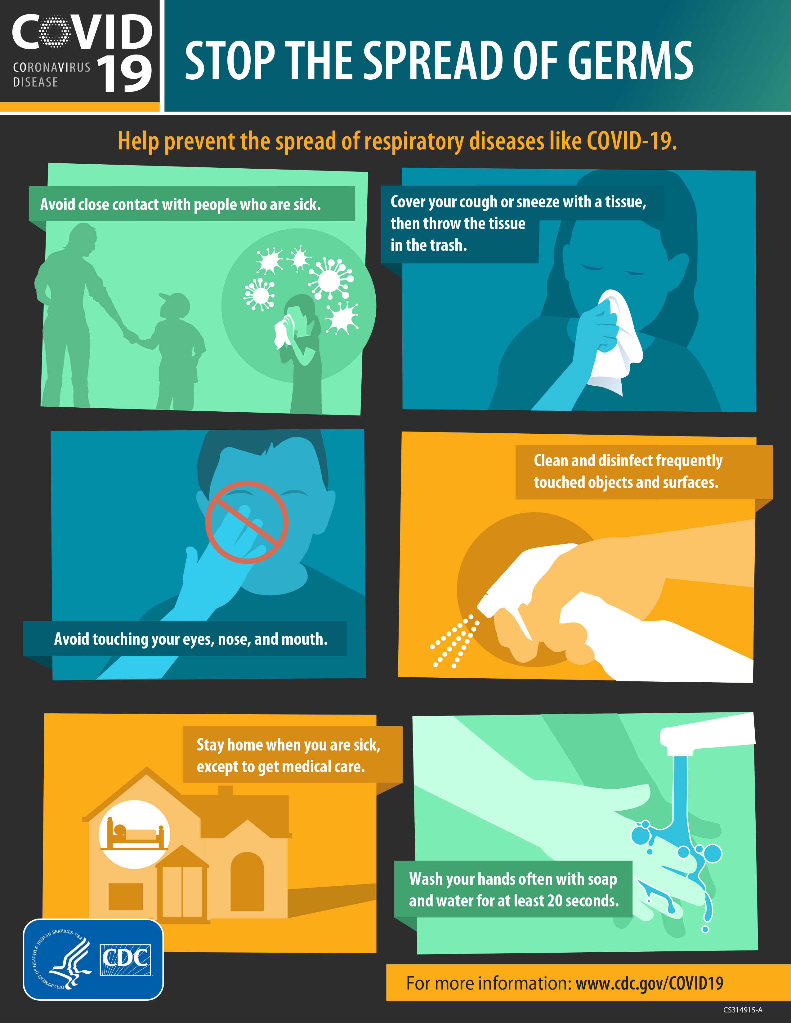 Stop the Spread of Germs (COVID-19) - Infographic describing how to stop the spread of germs.